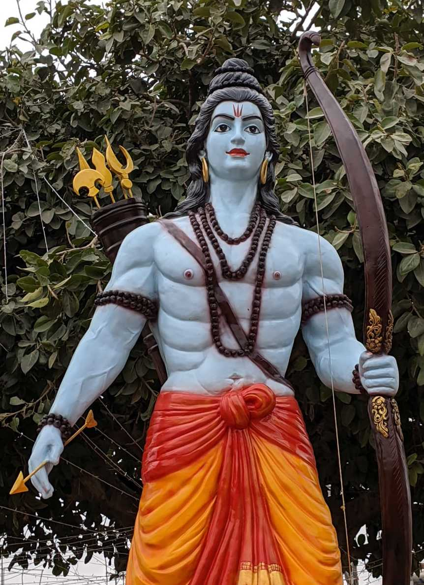 Ram in Ayodhya